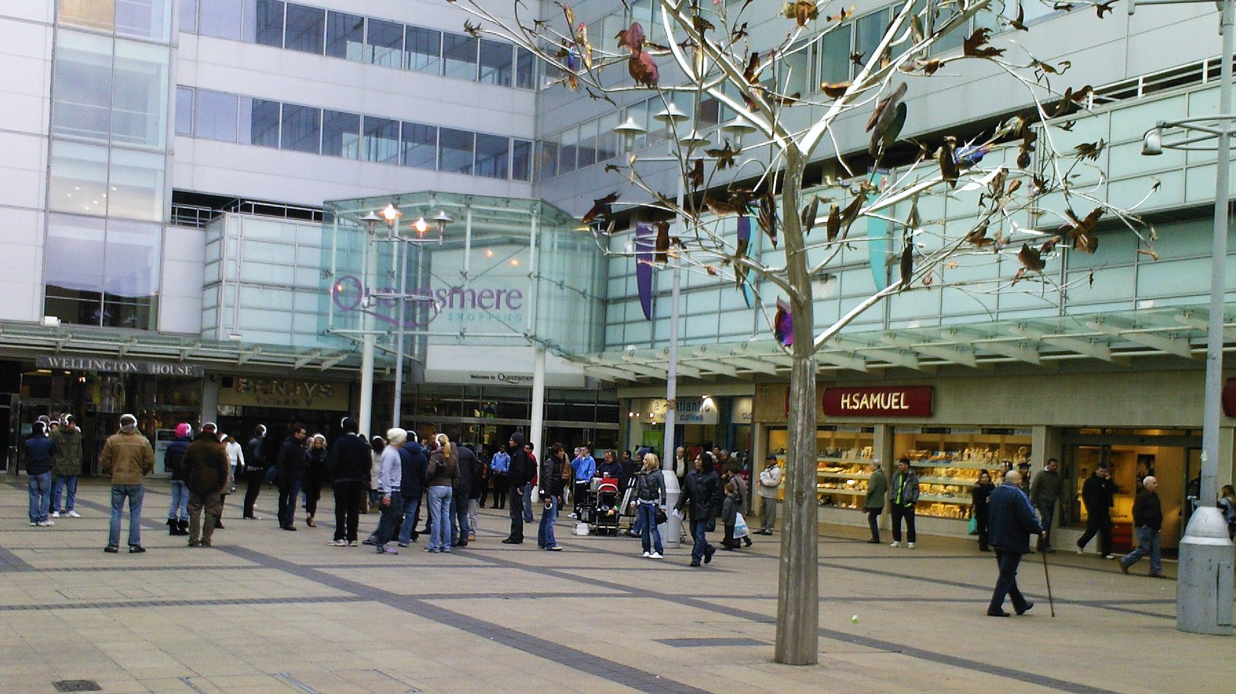 The entrance to Queensmere Shopping Centre, Slough High St., Slough, Berkshire, United Kingdom